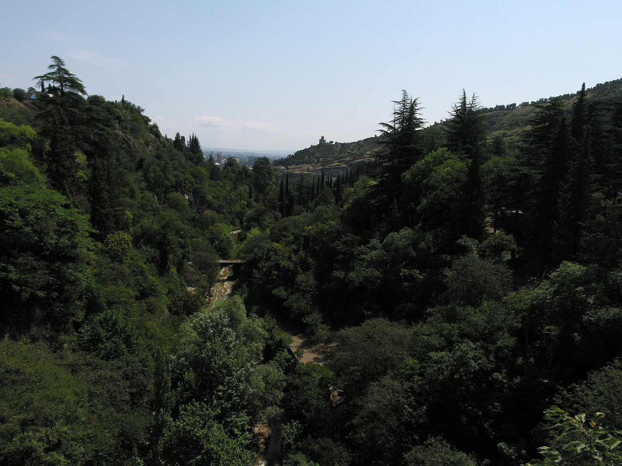 Tbilisi Botanical Garden